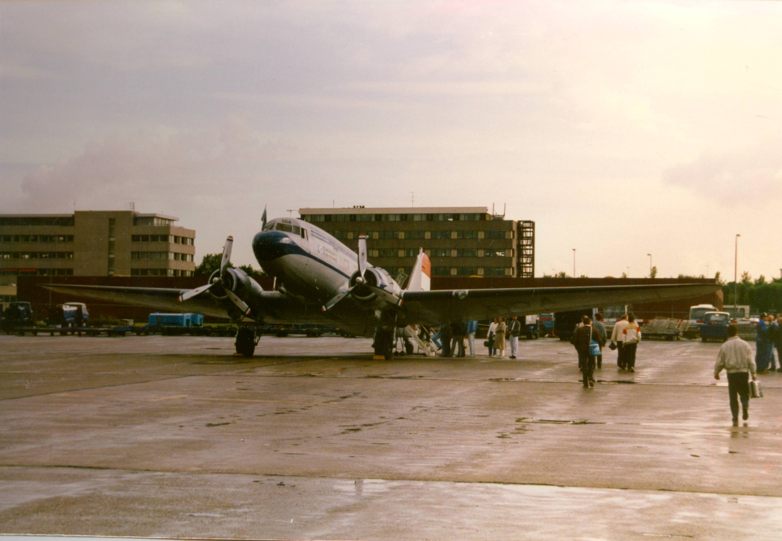 Airplane of the DDA (Dutch_Dakota_Association)